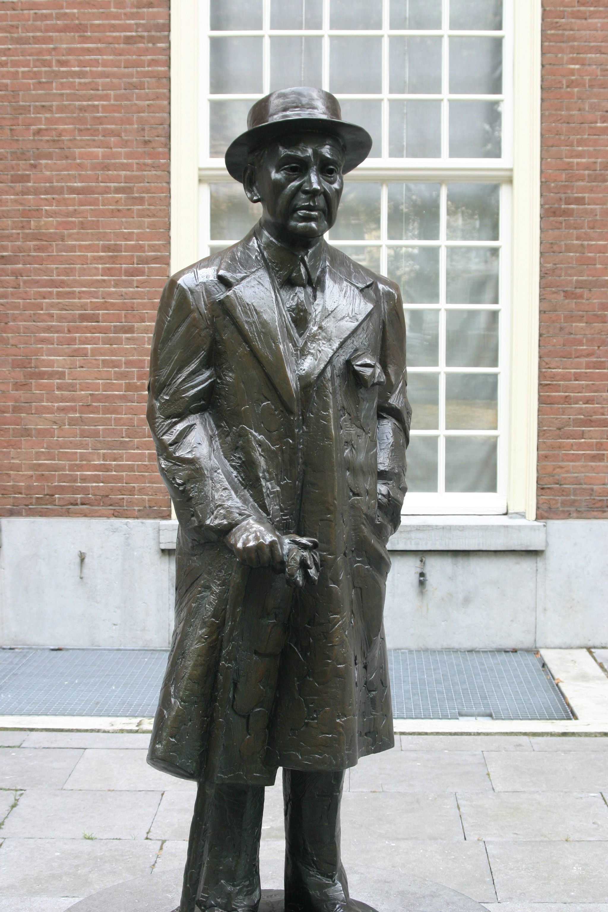 Statue of Louis Couperus, by Kees Verkade